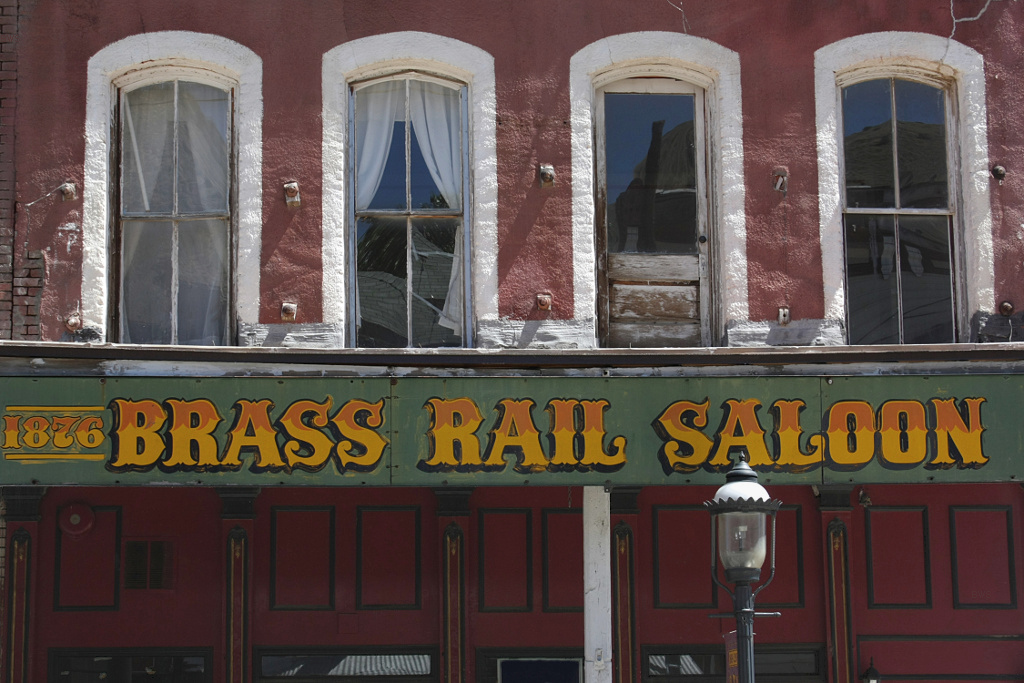 Virginia City, Nevada, USA, Brass Rail Saloon, upper facade